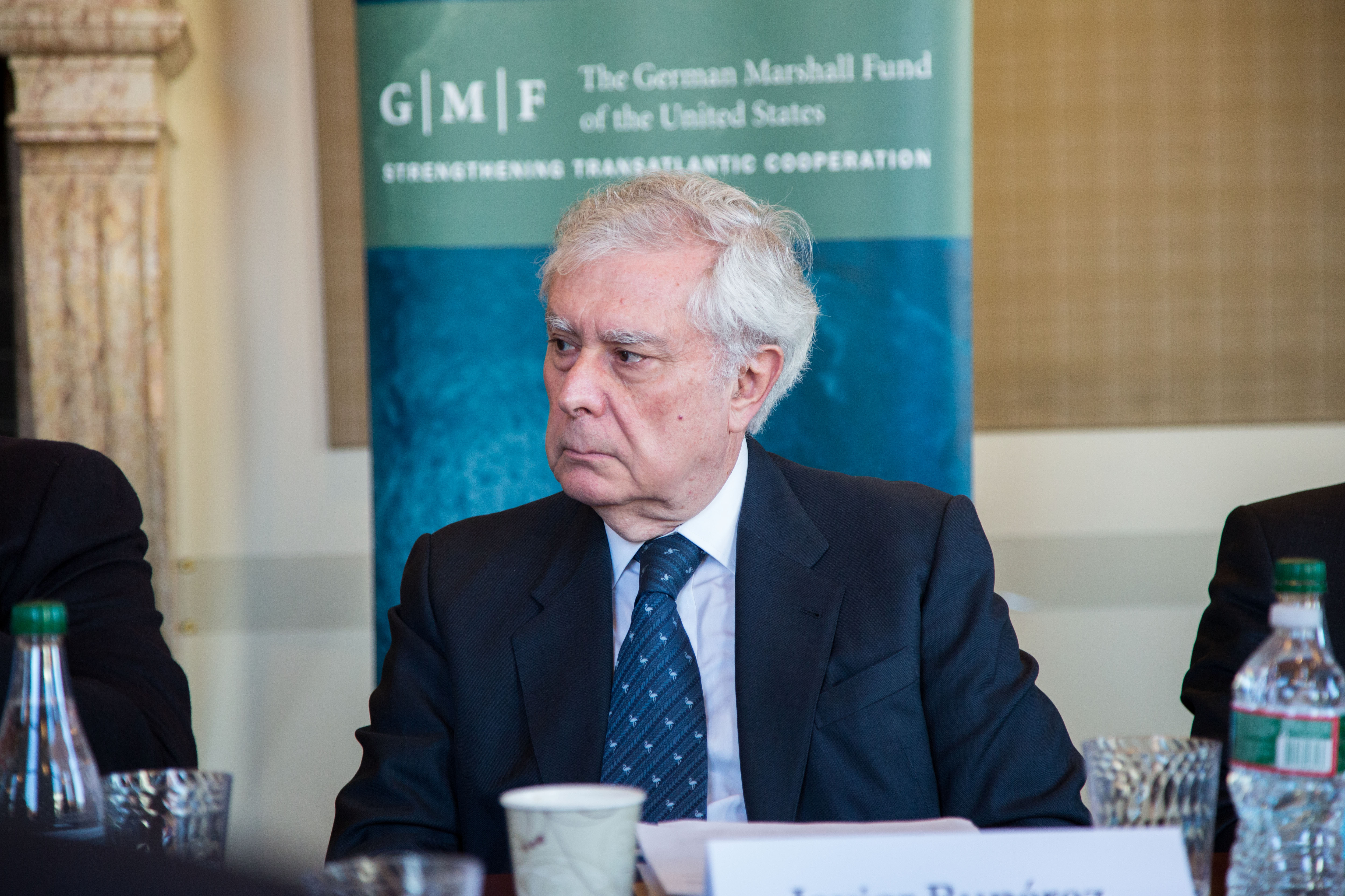 courtesy of The German Marshall Fund of the United States